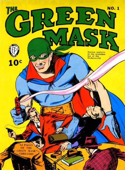 Cover to Green Mask #01 (Summer 1940), published by Fox Feature Syndicate.